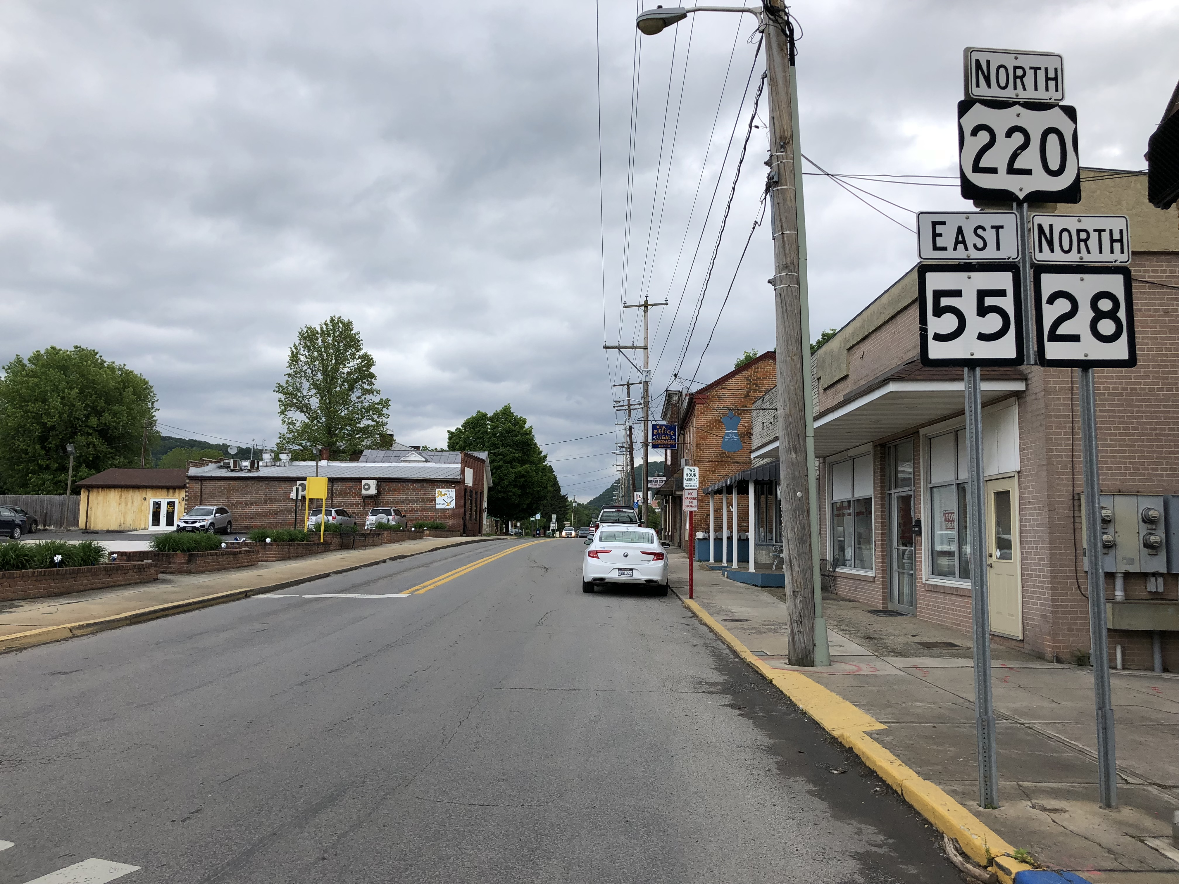 View north along U.S. Route 220 and West Virginia State Route 28 and east along West Virginia State Route 55 (Virginia Avenue) just east of Main Street in Petersburg, Grant County, West Virginia